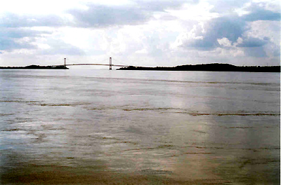 Bridge over the Orinoco at Ciudad Bolivar Venezuela